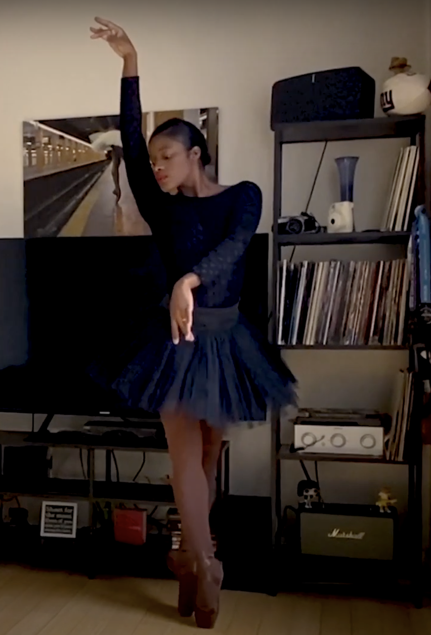 Swans For Relief - Ingrid Silva Dance Theater of Harlem, USA Donate: 32 premier ballerinas from 22 dance companies in 14 countries perform Le Cygne (The Swan) variation sequentially in support of Swans for Relief. Organized by Misty Copeland and Joseph Phillips, 100% of the funds raised will be distributed to each dancer’s company’s COVID-19 relief fund, or other arts/dance-based relief fund in the event that a company is not set up to receive donations. To donate please visit, Ballet companies are largely dependent on revenue from performances to pay their dancers and fund their operations, but due to the coronavirus pandemic, all performances have been halted. Consequently, many dancers are unable to depend on paychecks and are facing the hardship of paying rent and/or buying food and other necessities. Le Cygne (The Swan) with music by Camille Saint-Saëns, performed by cellist Wade Davis (USA), with choreography by Michel Fokine by kind permission of the Fokine Estate-Archive.